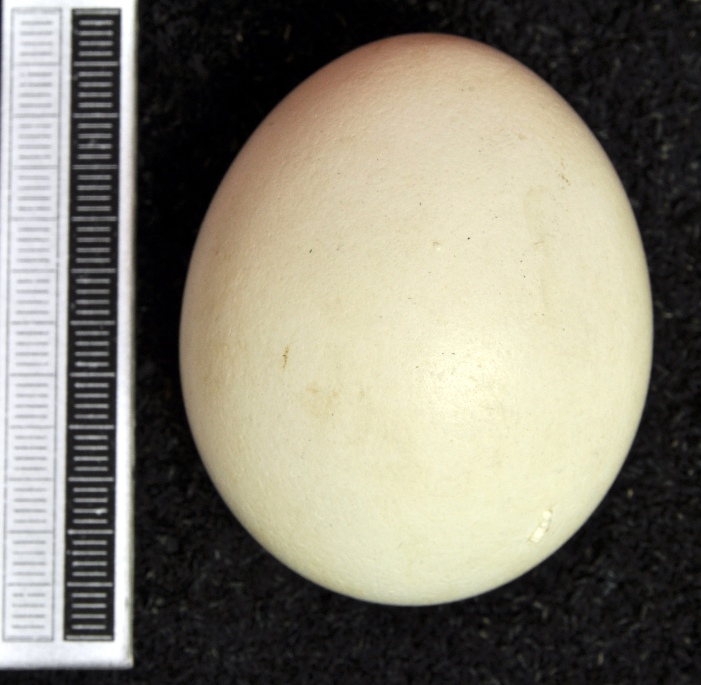 Great grey owl Strix nebulosa , egg, Coll. Museum Wiesbaden